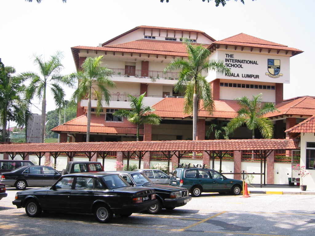 International School of Kuala Lumpur secondary campus in Ampang, Selangor